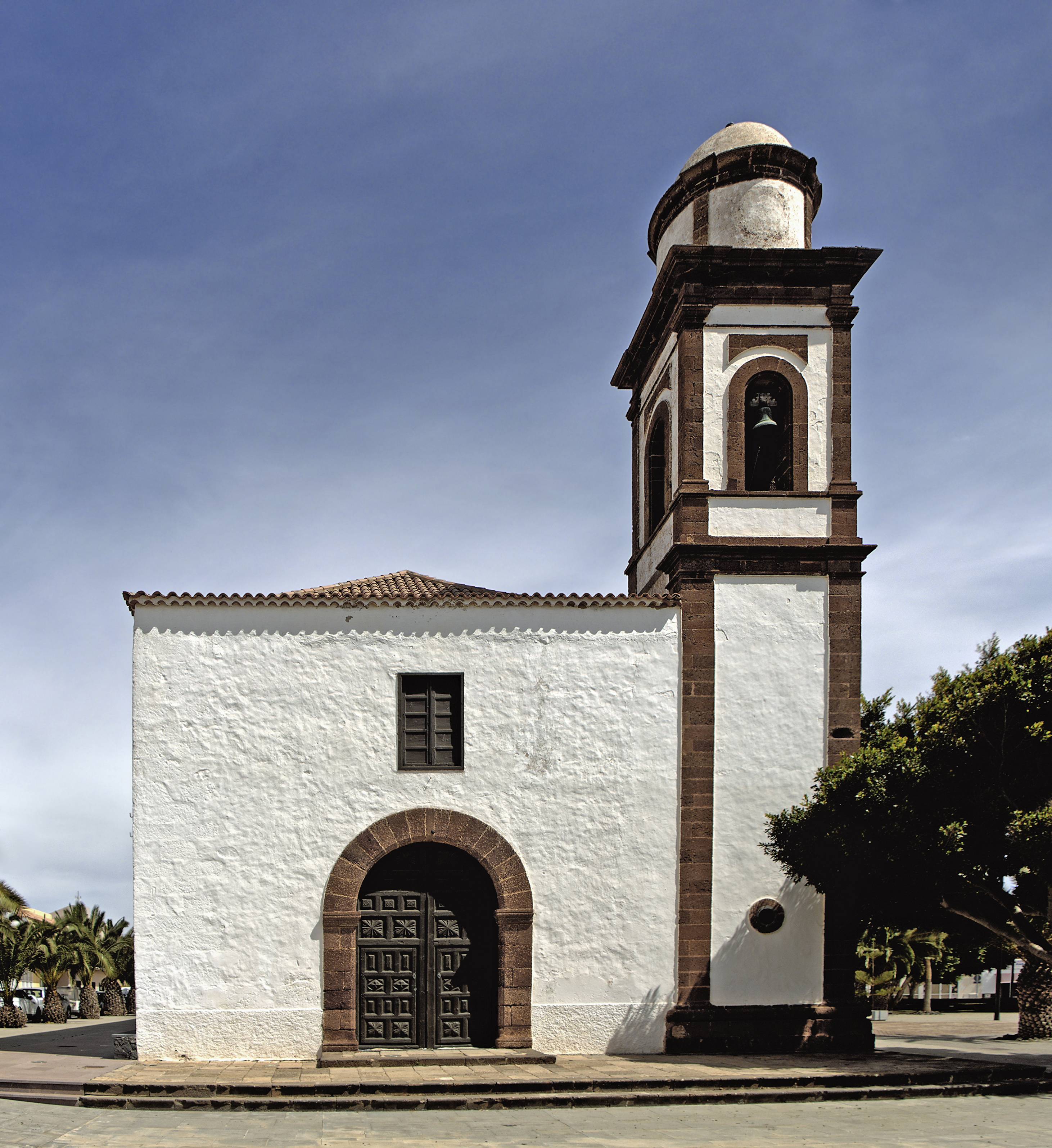 Iglesia de Nuestra Señora de la Antigua, Antigua, Fuerteventura, Canary Islands. The church was built in the 18th century.